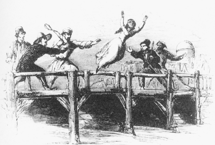 The Death of Clotel. Frontispiece to the first edition (1853) of Clotel